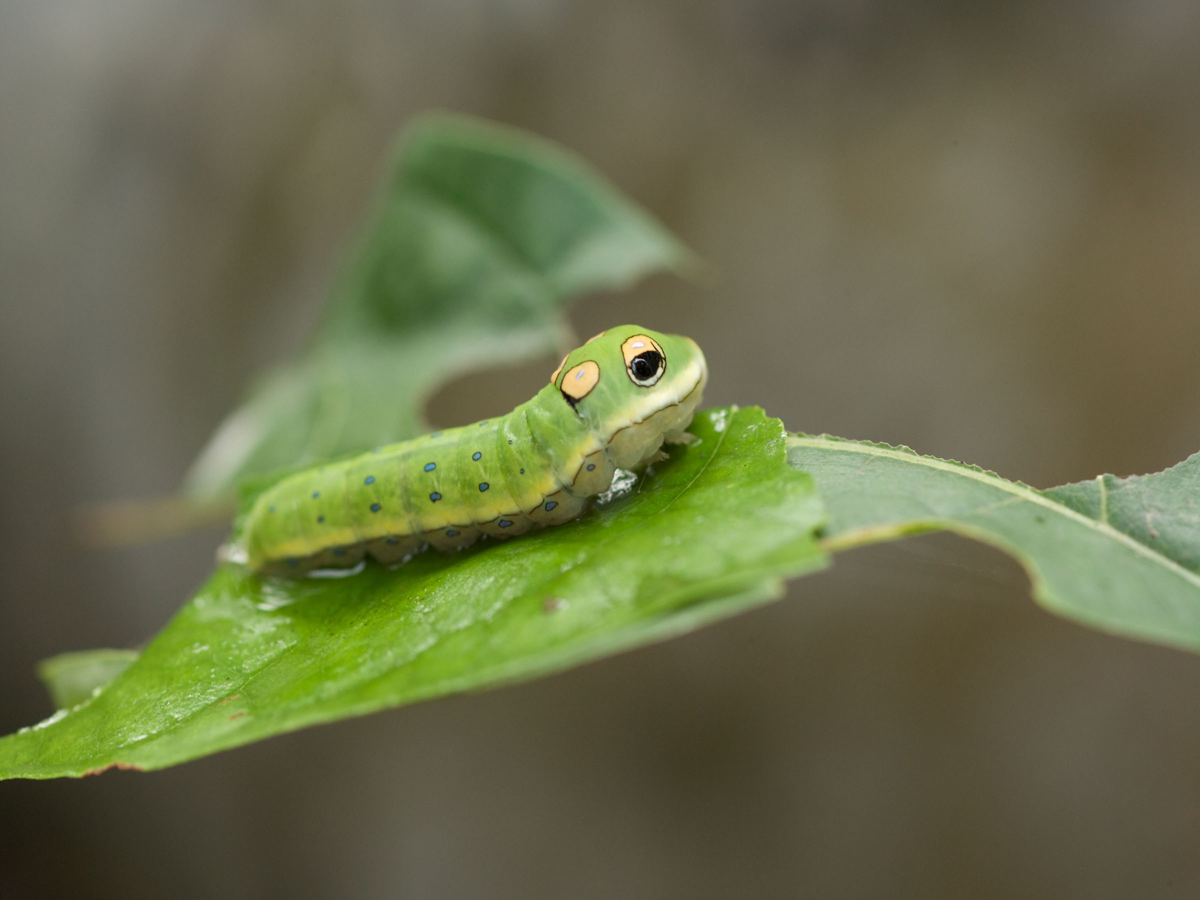 Caterpillar of Spicebush Swallowtail (Papilio troilus)